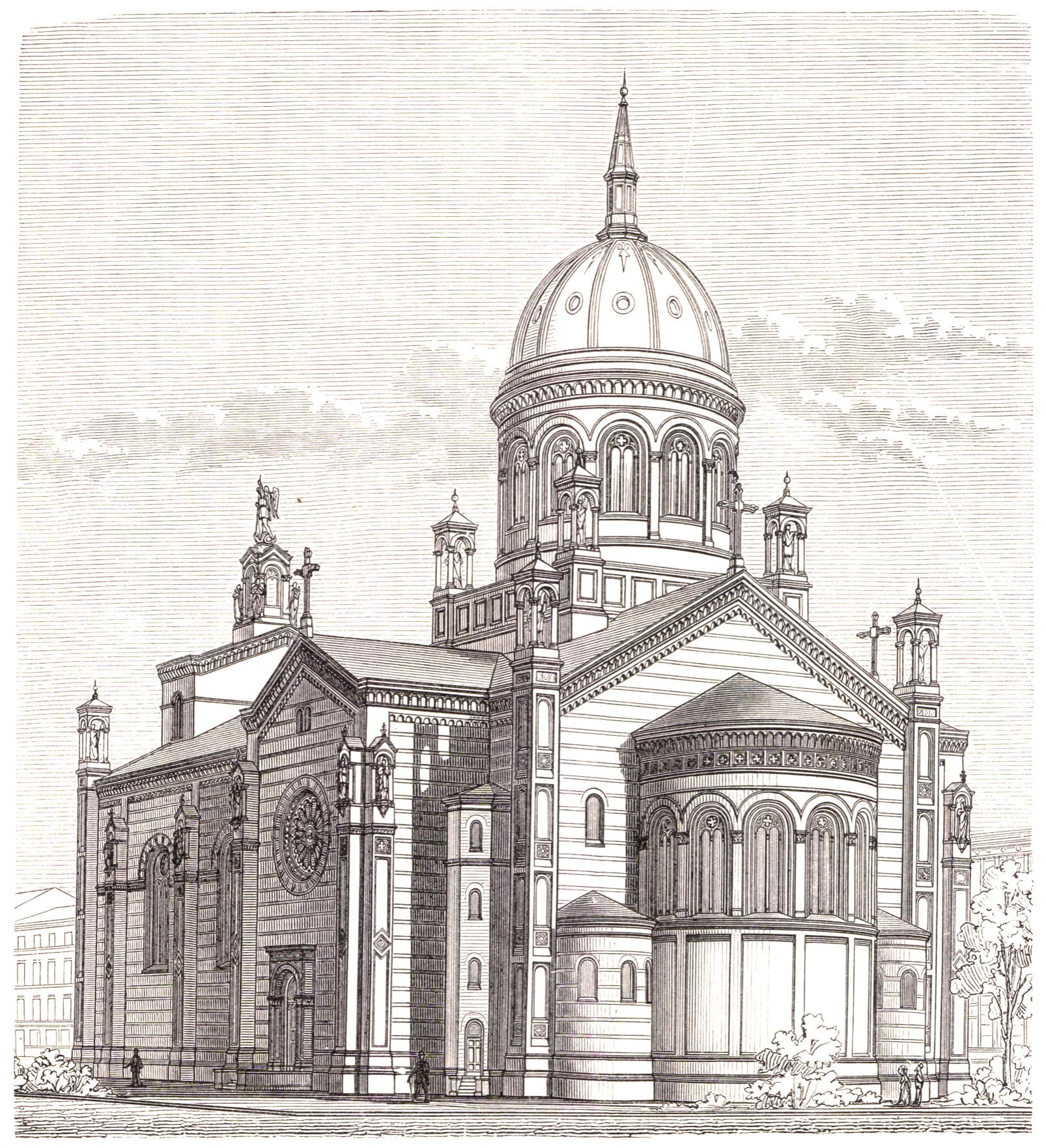 Berlin - St. Michaelskirche, exterior view